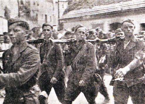 Cankarjeva brigada v Metliki